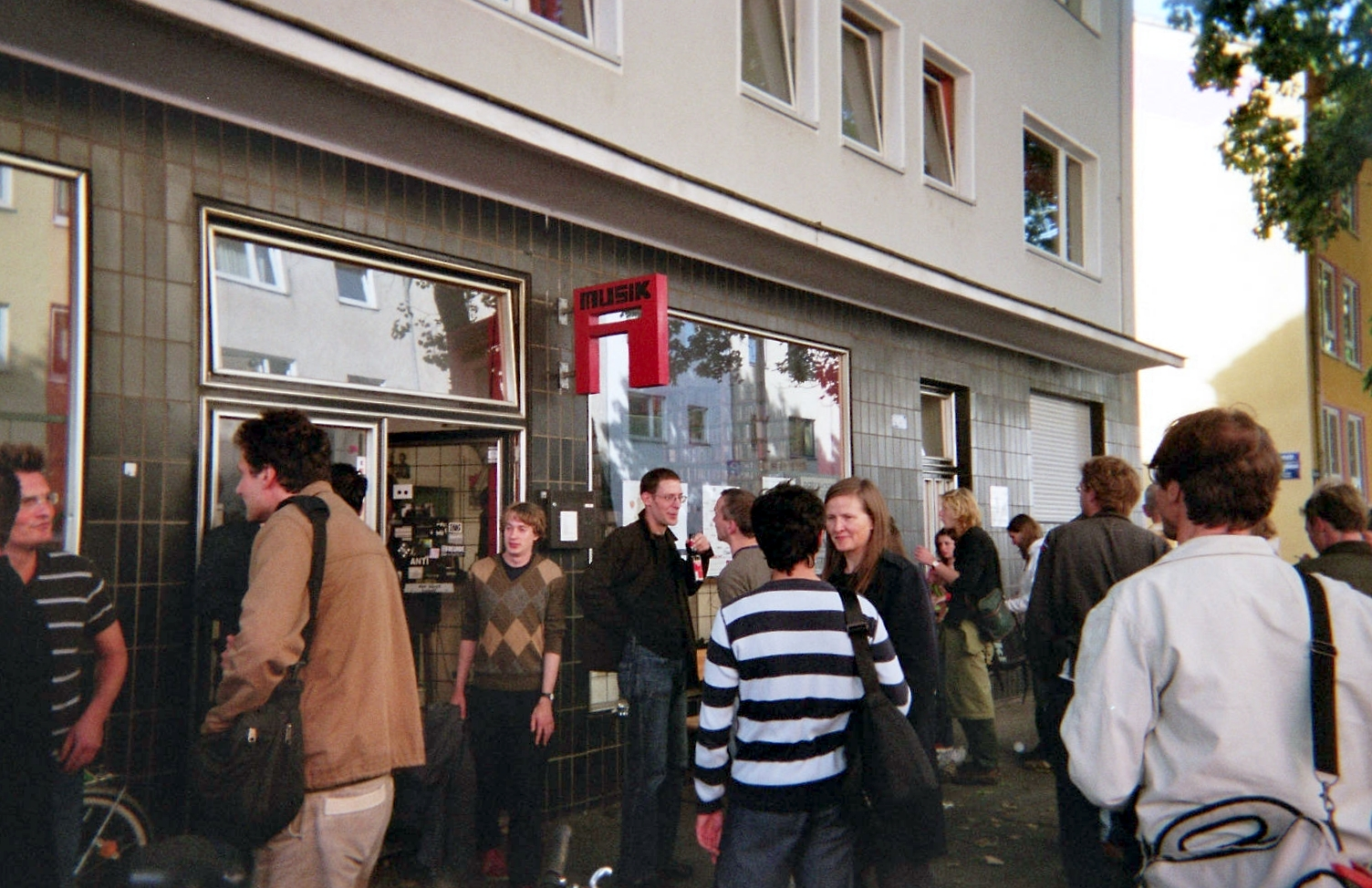 A-Musik, recordshop and label for avantgarde-music in Cologne, 2005, at the 10th jubilee party.